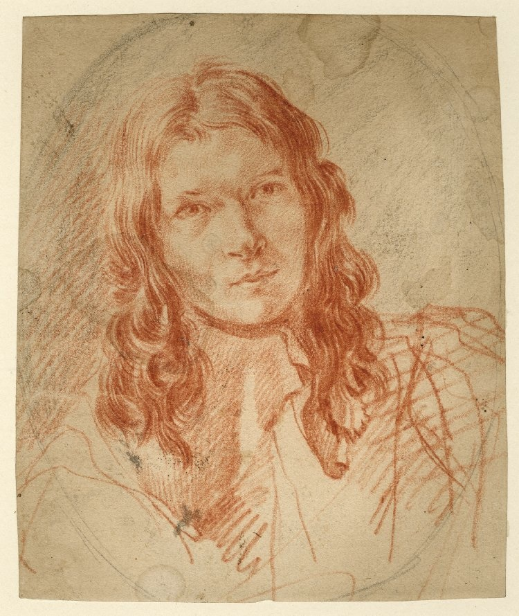 Self-portrait; head and shoulders, slightly inclined to left, looking to front, with long hair falling over his shoulders, oval Red chalk, touched with black chalk, on buff paper